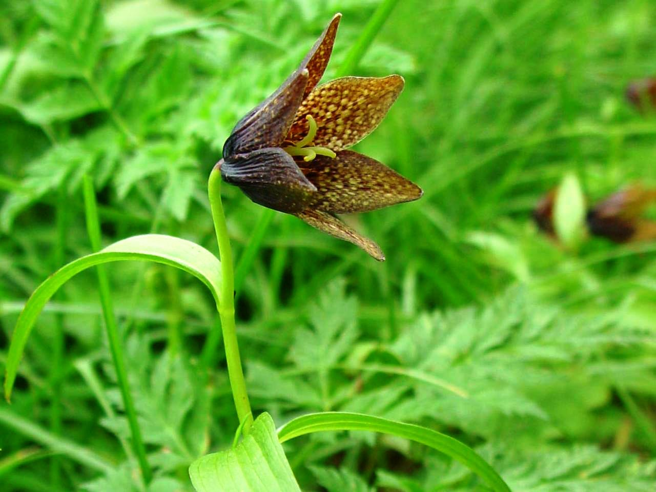 Fritillaria camschatcensis var. keisukei, in Mount Haku, Japan.